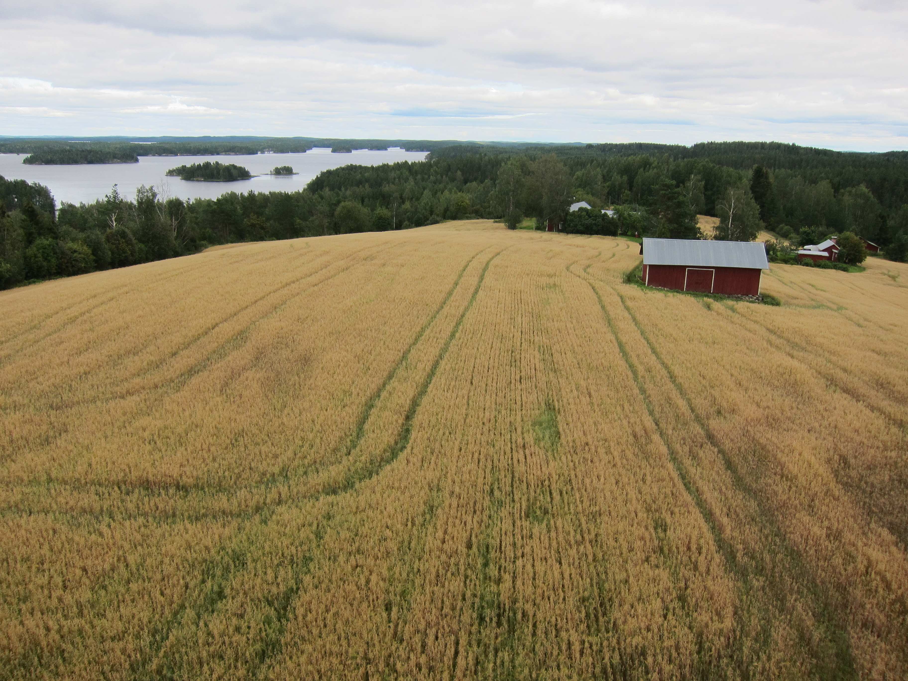 View from Reposalmi look-out in Rantasalmi